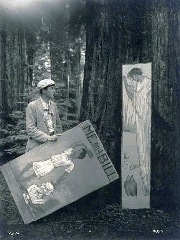 George Sterling, American poet